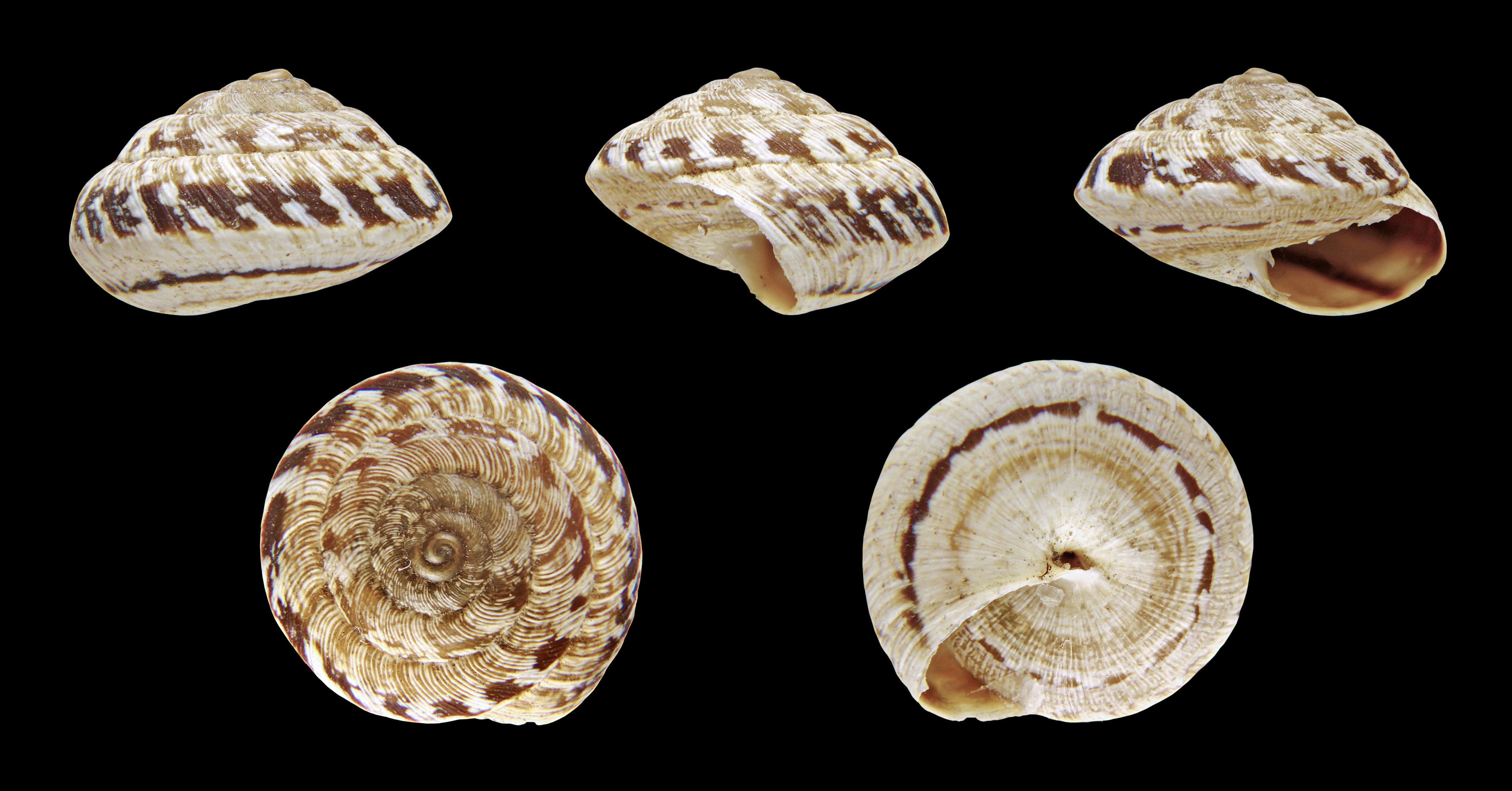 Diameter 0.8 cm; Originating from the Barranco de Masca, Masca, Tenerife, Canary Islands, Spain; Shell of own collection, therefore not geocoded.